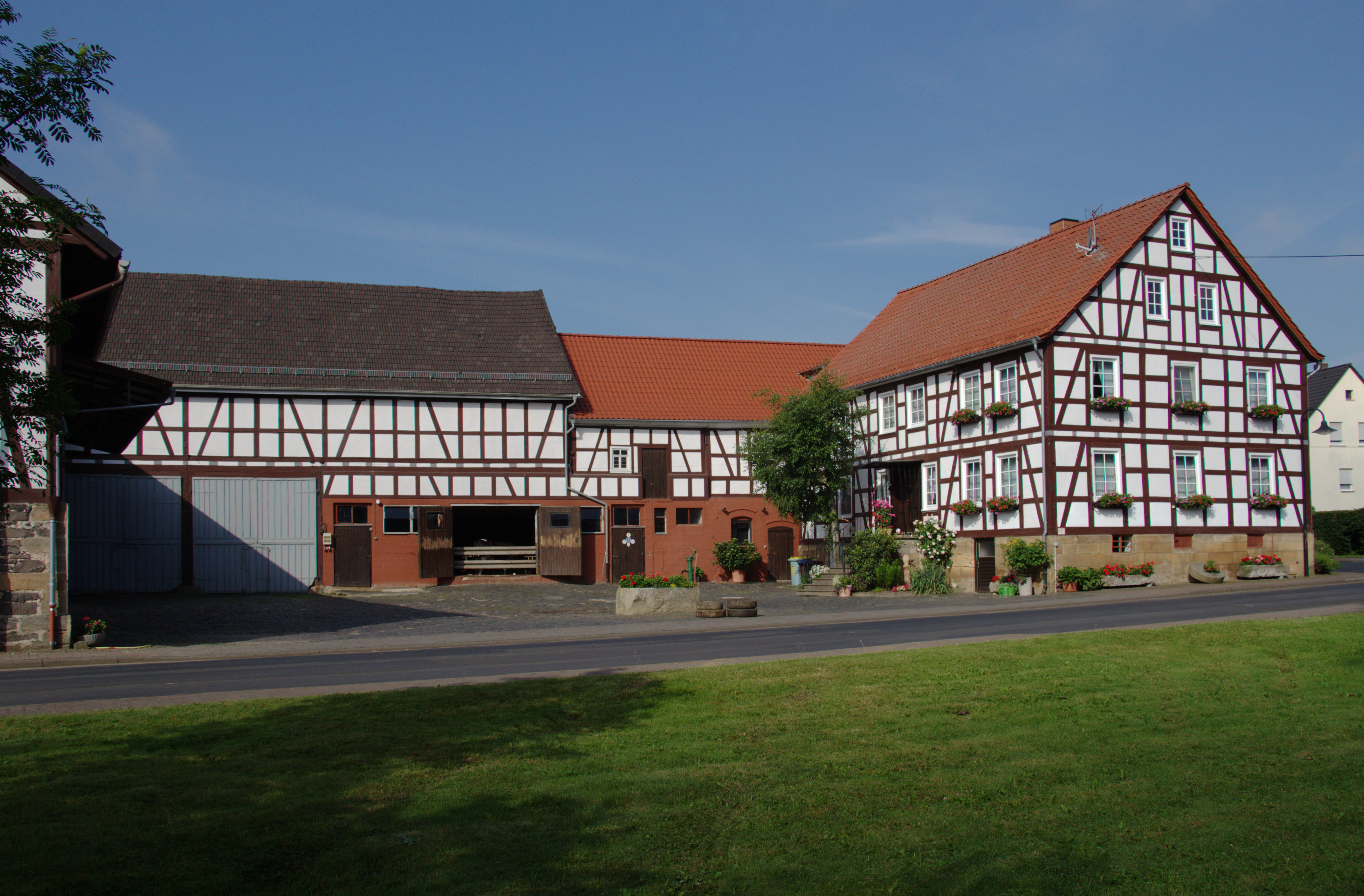 Half-timbered building in Alsfeld Elbenrod Berfaer Strasse 5 / Hesse / Germany